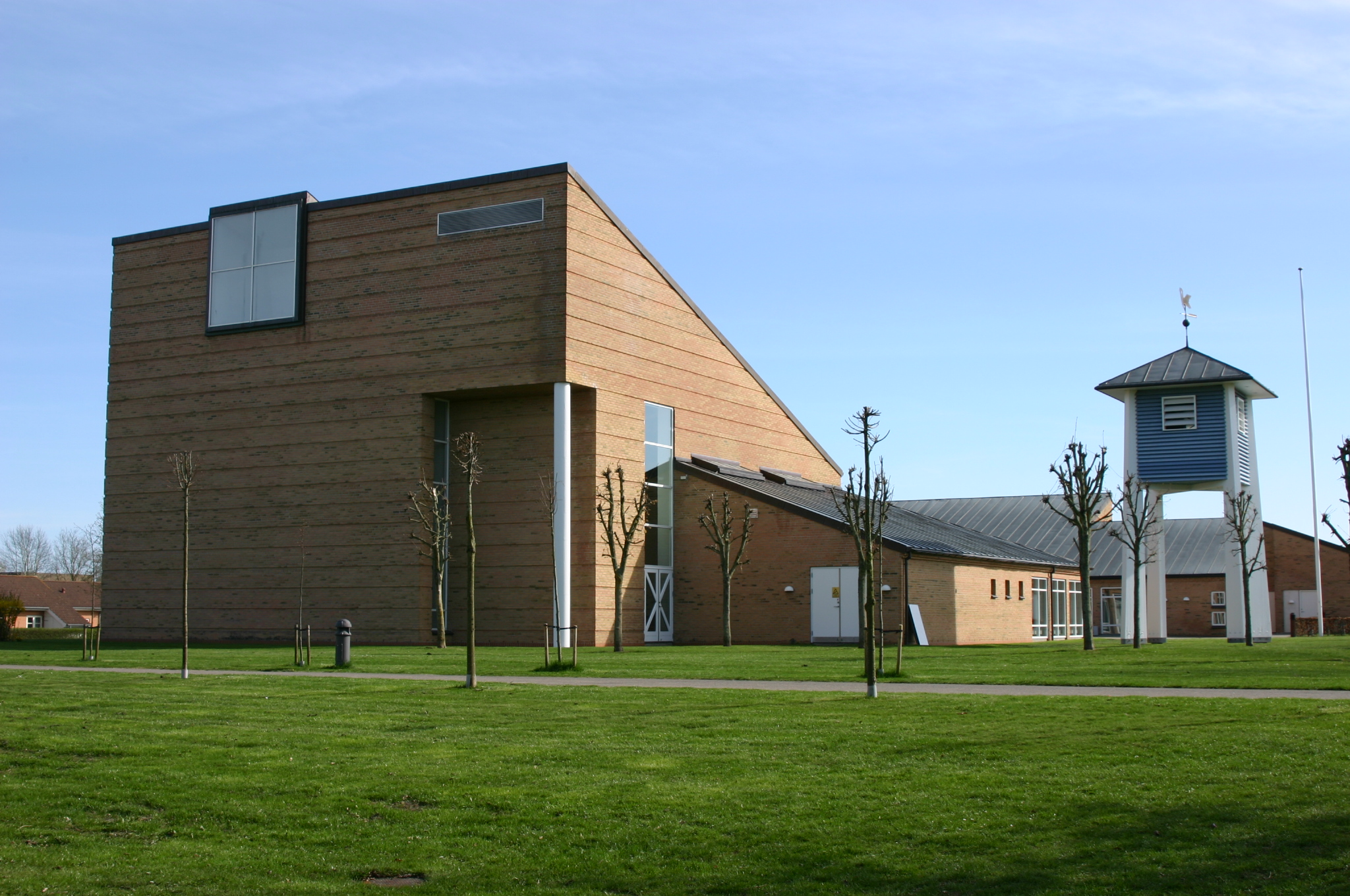 Houlkjær Church, Viborg, Denmark (Lutheran-Evangelical, Danish National Church) Houlkjær Kirke, viborg